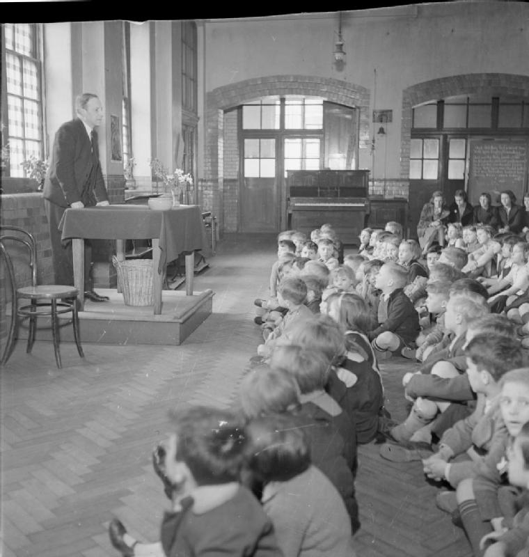 Diphtheria Immunisation Scheme, London, England, 1941 A doctor talks to a group of children in the assembly hall of Argyle Street School on 7 May 1941. He is explaining why they are about to have diphtheria inoculations in the school clinic.